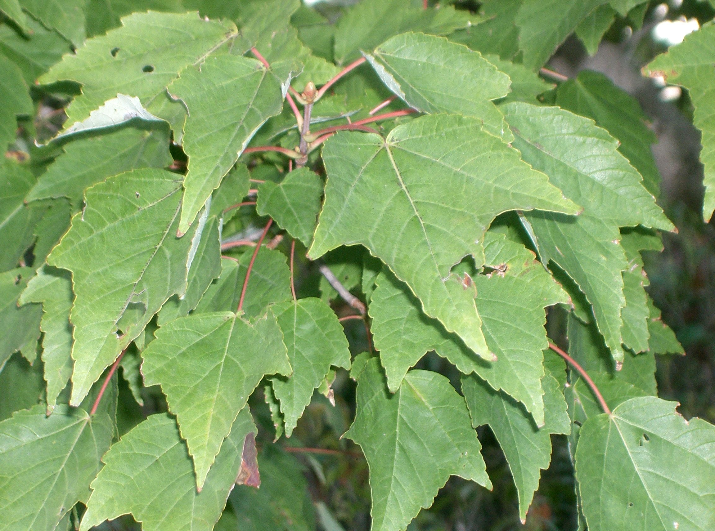 Acer pycnanthum (syn. Acer rubrum var. pycnanthum )